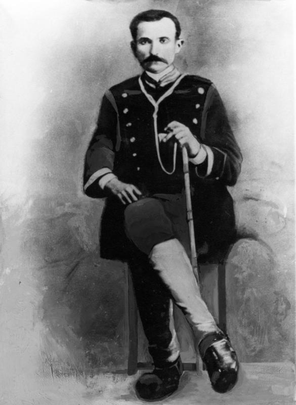 Greek andart captain Pavlu Kiru (Pavel Kirov)